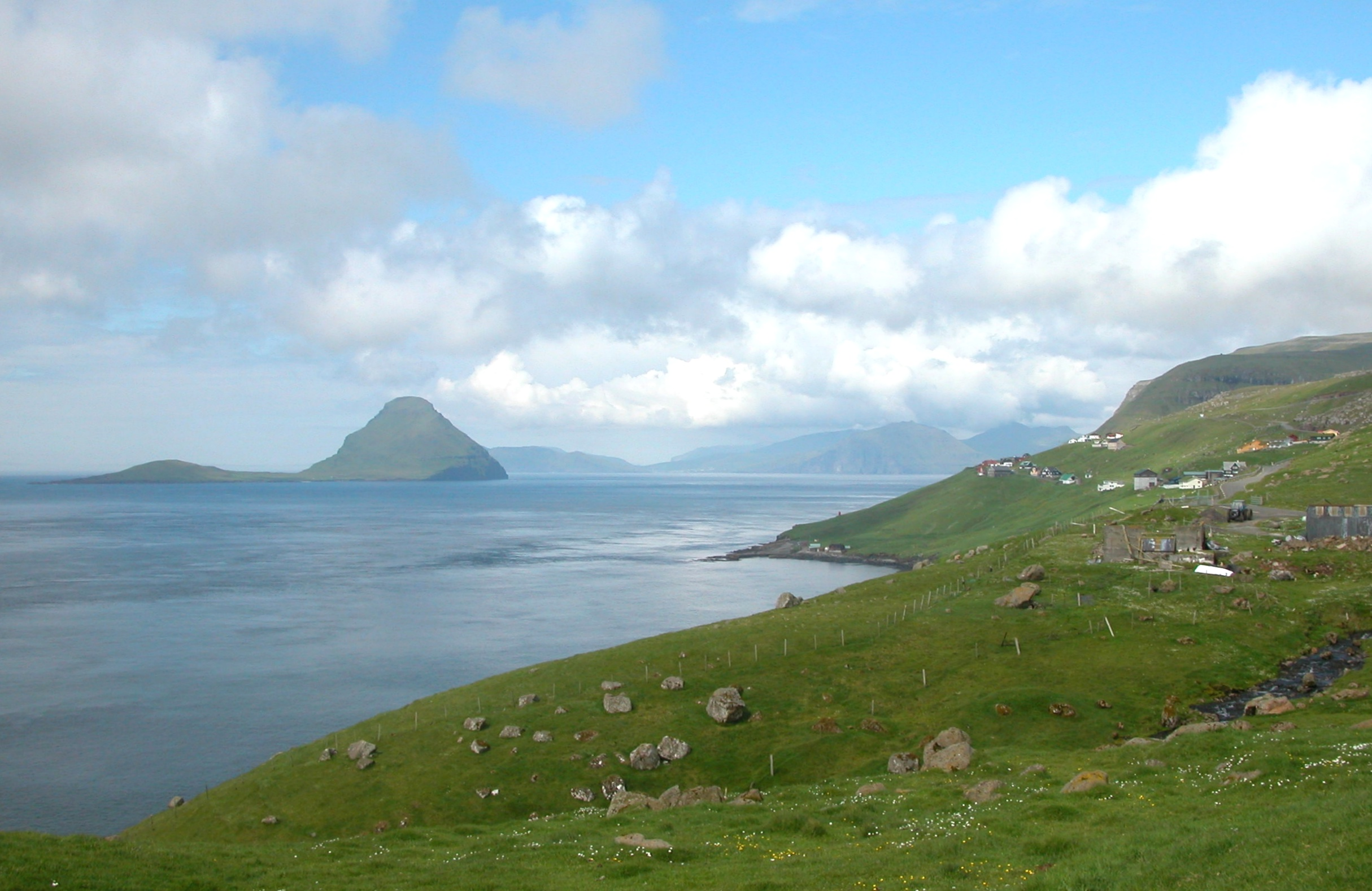 Kirkjubøur on Streymoy, Faroe Islands (View on the island of Koltur and the village Velbastaður)